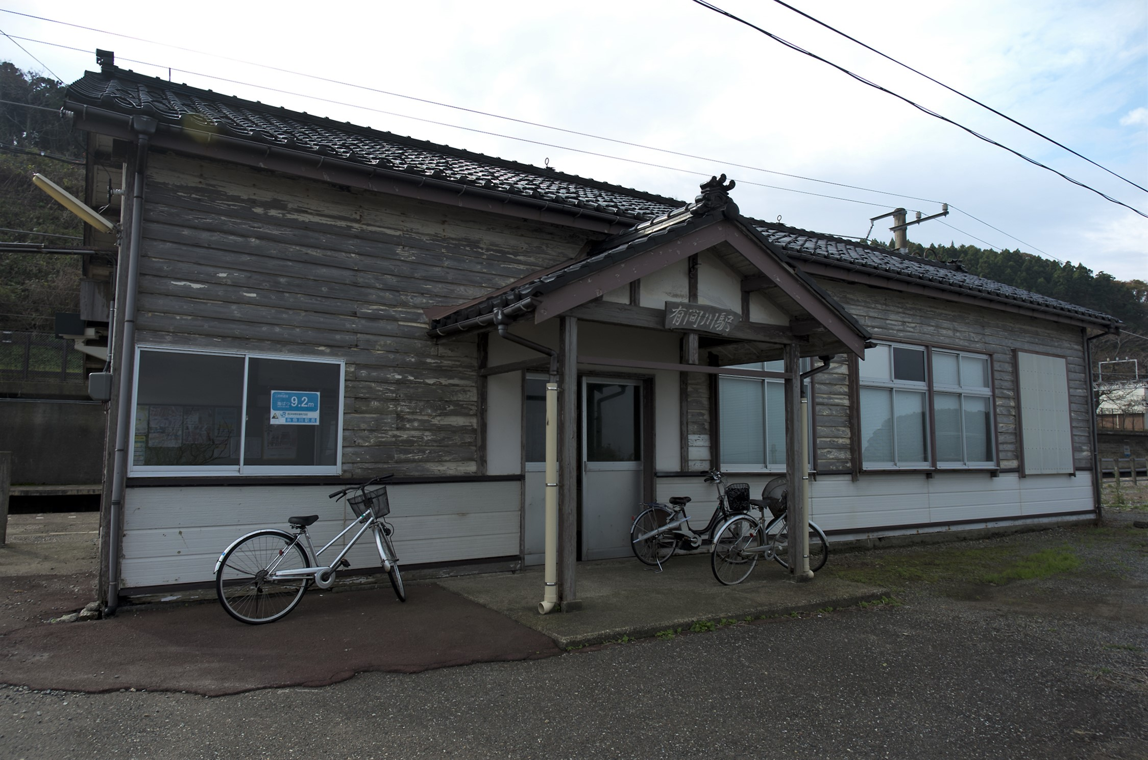 Arimagawa Station before transfer to the Echigo Tokimeki Railway